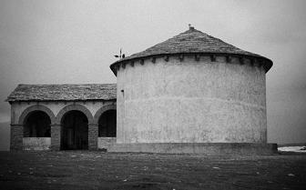 Trinidad de Iturgoyen